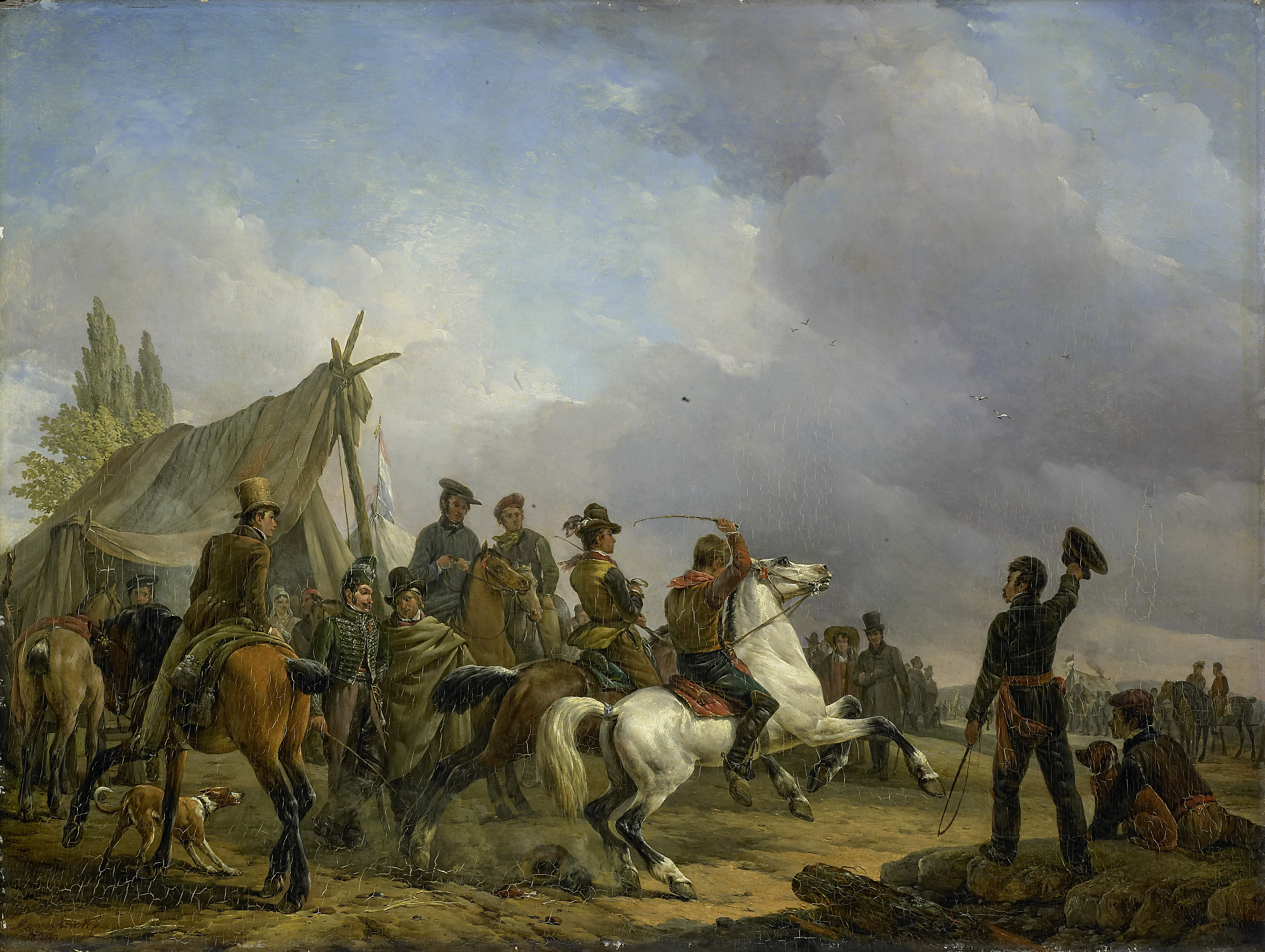 The Horse Race. The start of a race between two horses in an army camp, watched by soldiers and civilians.